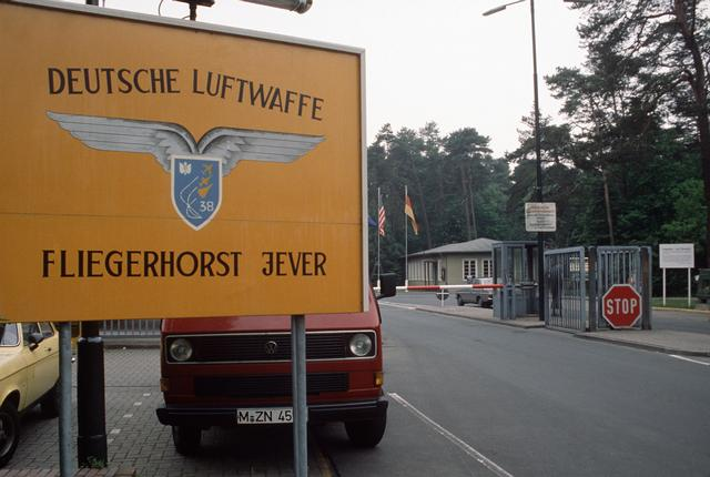 A sign at the main gate of the German air base (Fliegerhorst) Jever in Lower Saxony.